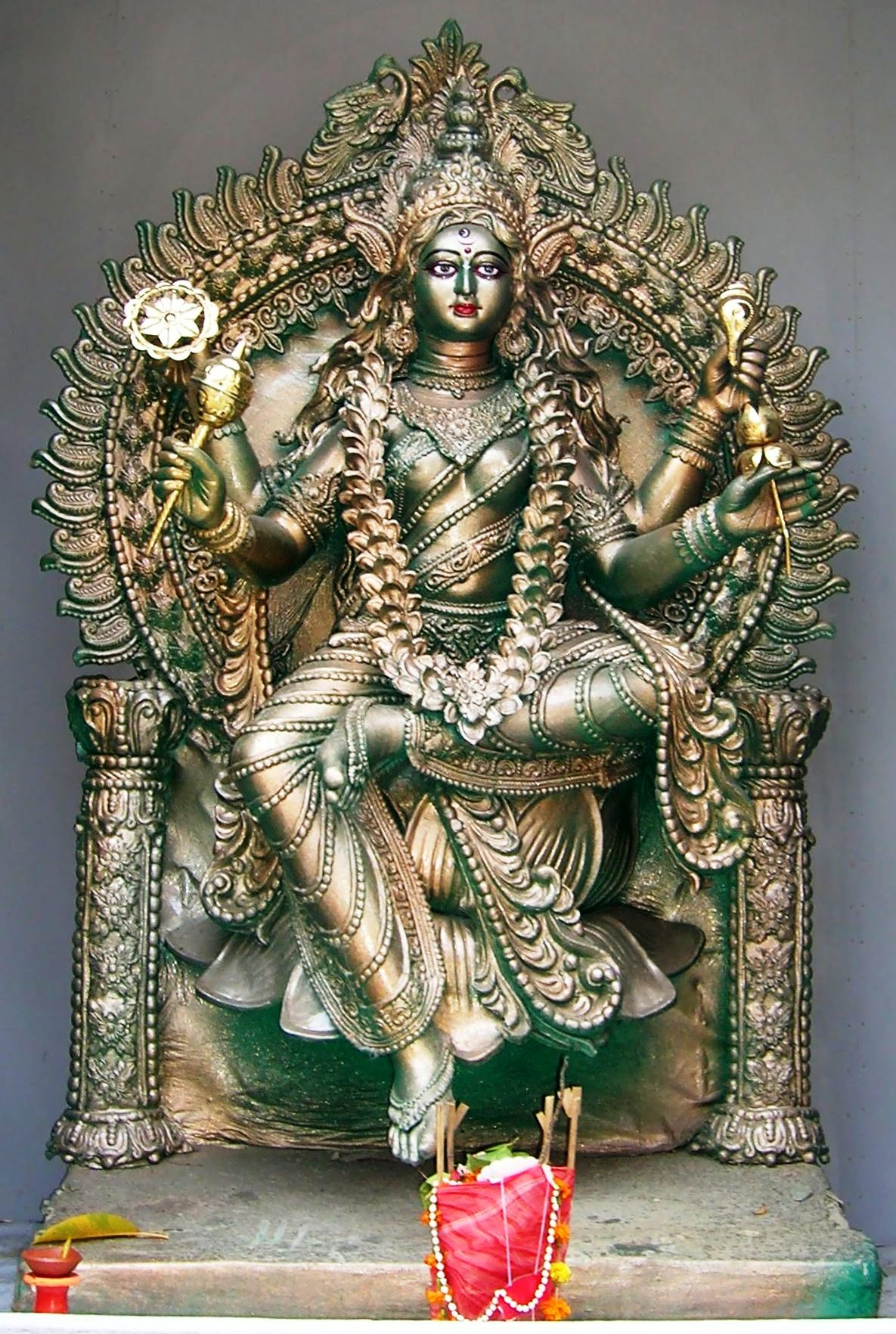 Devi Siddhidatri, Sanghasri, Kalighat, Kolkata, 2010.